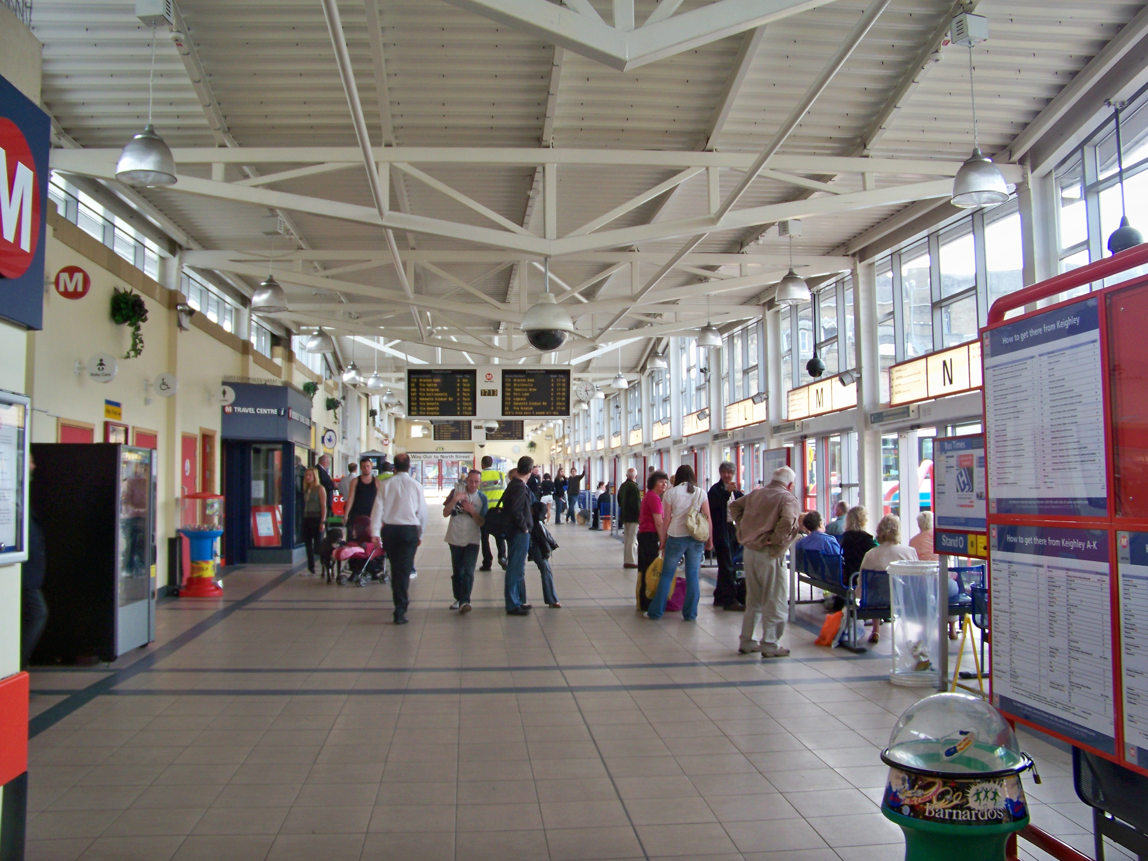 The interior of Keighley bus station, Keighley, West Yorkshire. Taken on the afternoon of Saturday the 22nd of August 2009.